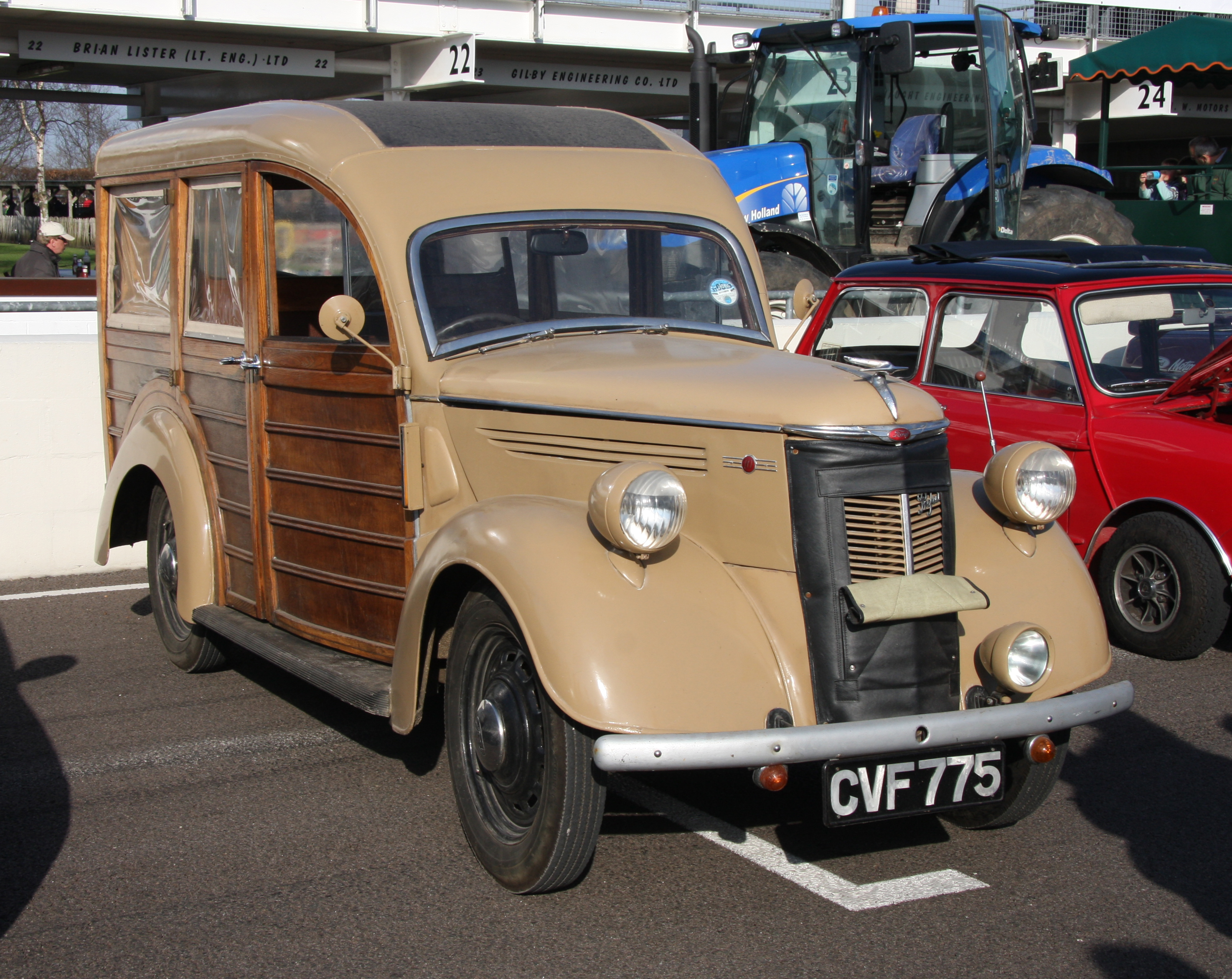 Custom built 1930s "Woodie" wagon based on a Ford Prefect.